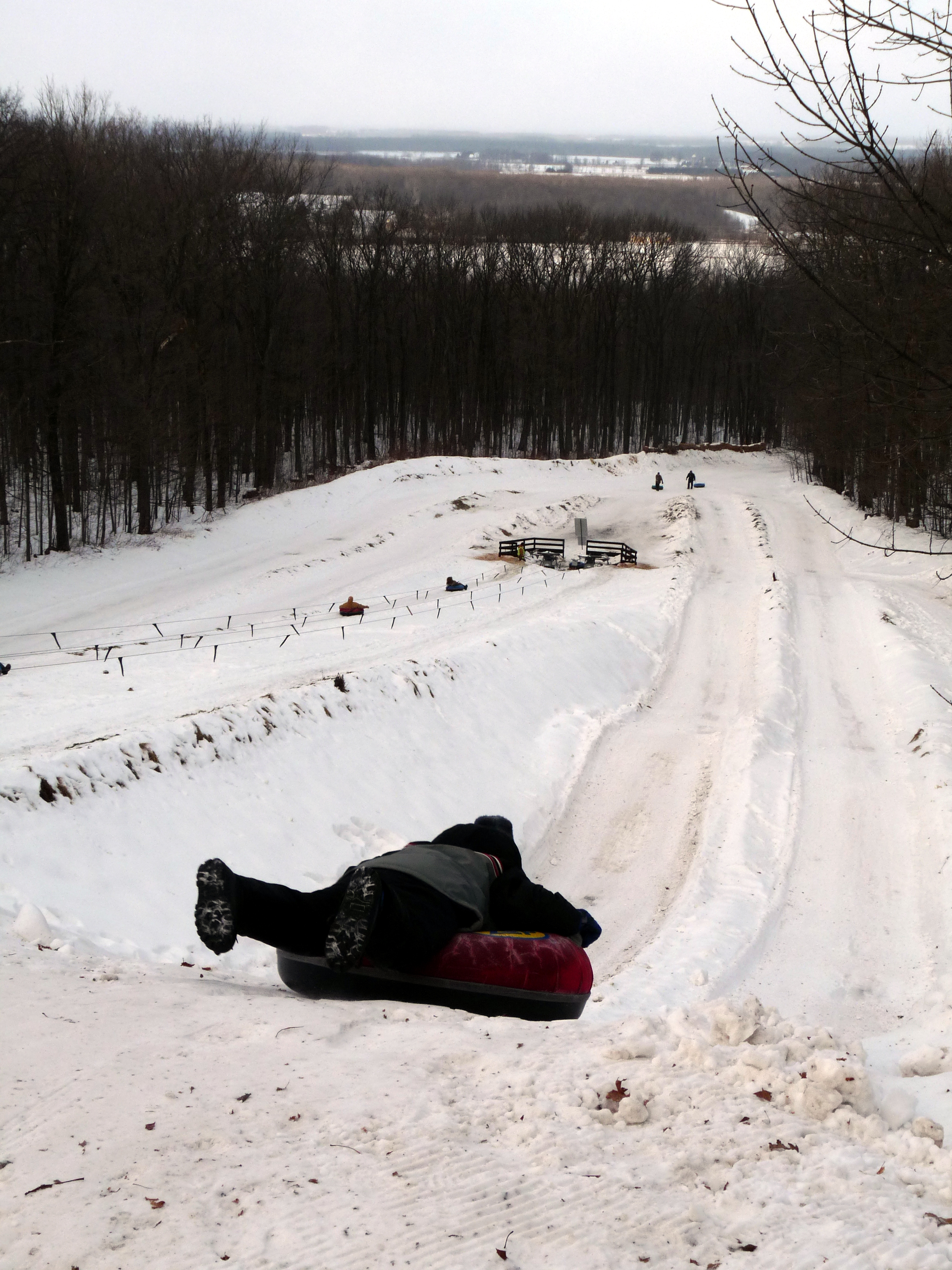 Inner-tubing on Powers Bluff near Arpin, Wisconsin.